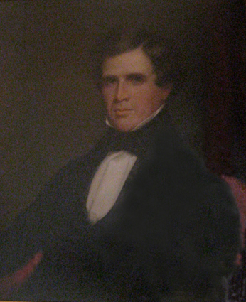 Official Vermont State House portrait of Governor Charles Paine. Photographed in situ at the Vermont State House in August 2007.